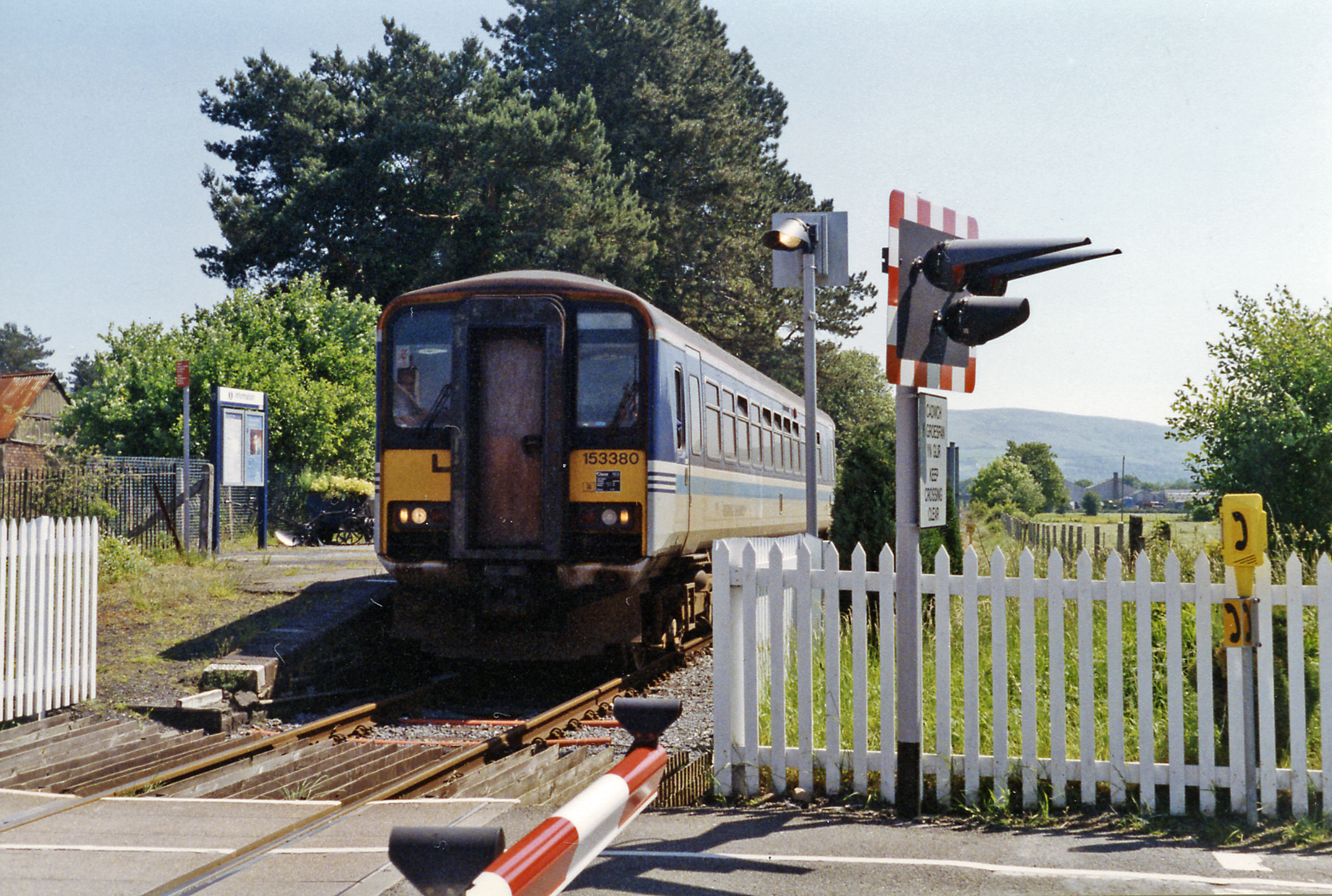 Ammanford station, 1994 with train. View southward, towards Pantyffynnon, Portdulais and Llanelli/Swansea: the SW end of the Central Wales (now 'Heart of Wales') line, which was ex-GWR from Llandilo, Joint GW&LNW thence to Llandovery and LNW from Craven Arms. The Class 153 DMU is northbound from Llanelli, Central Wales trains to/from Swansea having been diverted via Llanelli since Pontadulais - Swansea (Victoria, LNW) was closed 27/6/64.